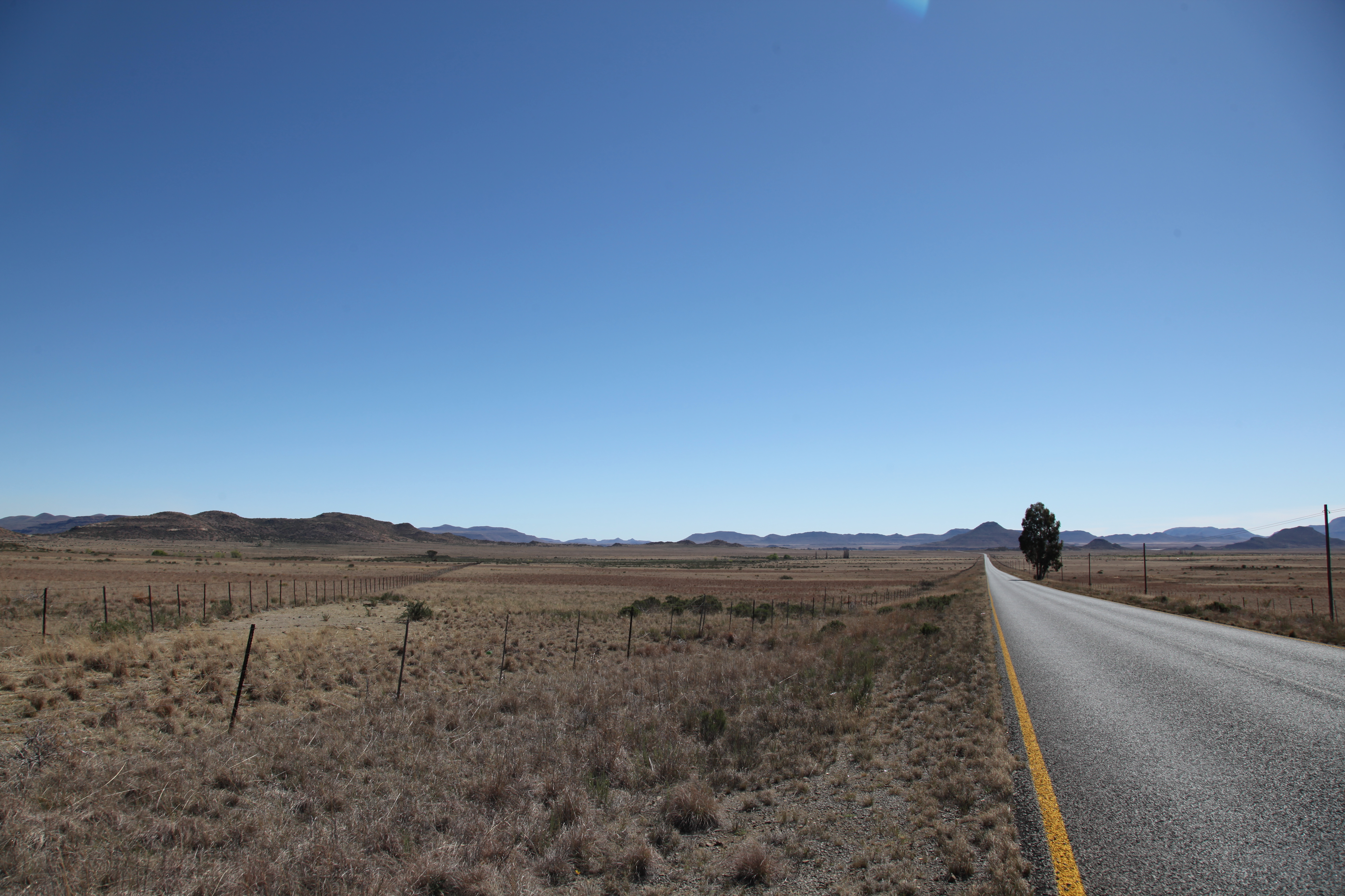 R391 Road between the R56 and Burgersdorp - Eastern Cape - South Africa